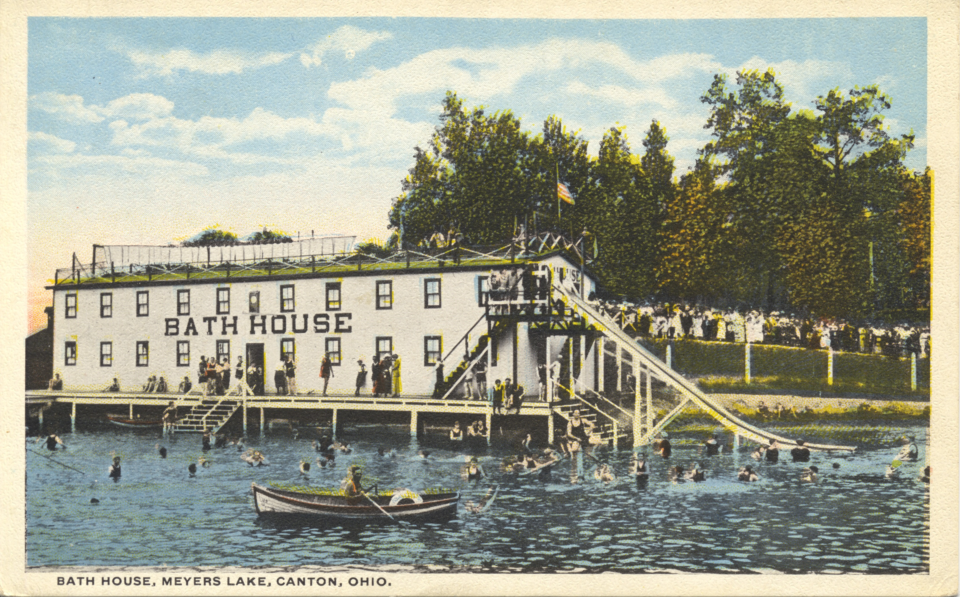 Persistent URL: Subject: Bathhouses; Swimming; Lakes & ponds; Ohio--Canton; miami digital collections; bowden postcard collection